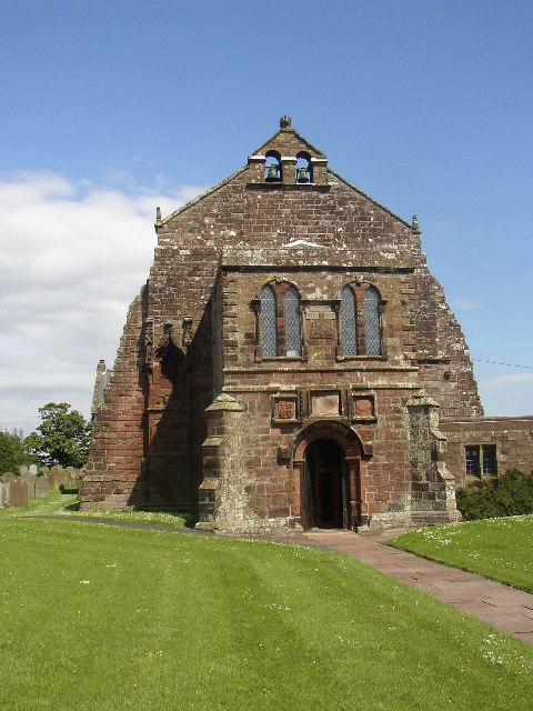 When the abbey was dissolved in 1538 the church of Holme Cultram Abbey was spared so that it could become the parish church, because the previous one at Newton Arlosh was too far from most of the parish. Unfortunately the church was very large and the maintenance cost more than the parish could afford, so the size of the church was drastically reduced.